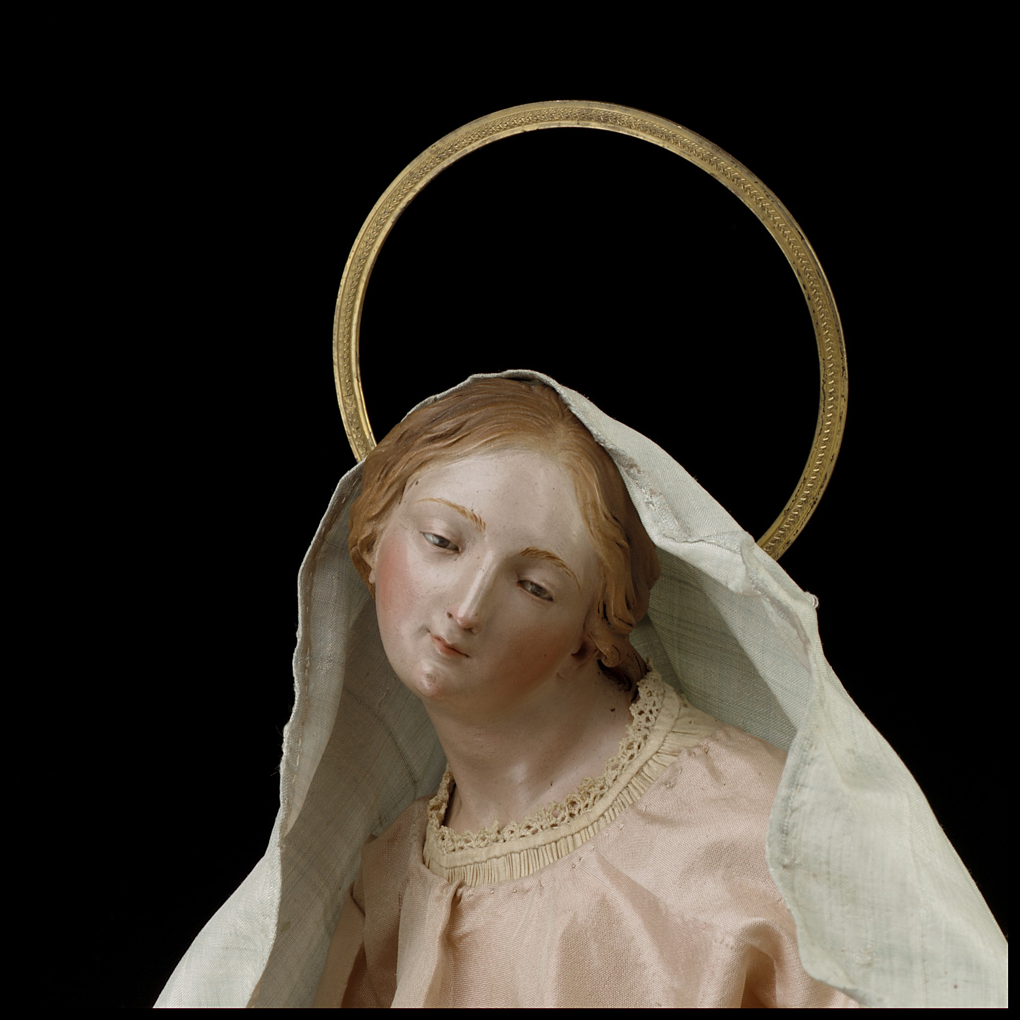 Italian, Naples; Crèche figure; Crèche